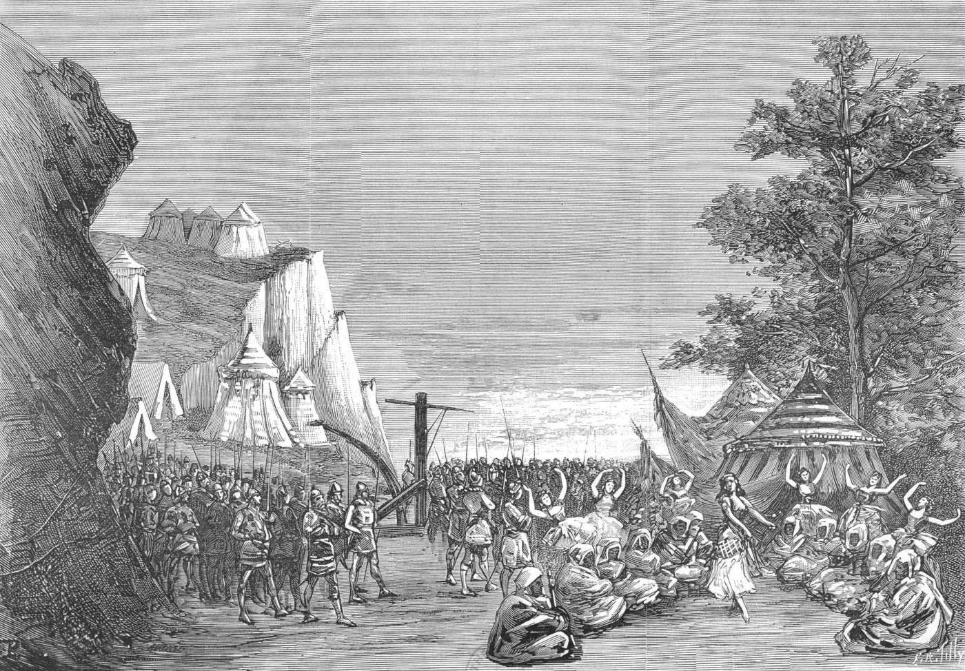 Massenet - Le Cid - 1885 - act 3, scene 6 - Le ballet au camp du Cid